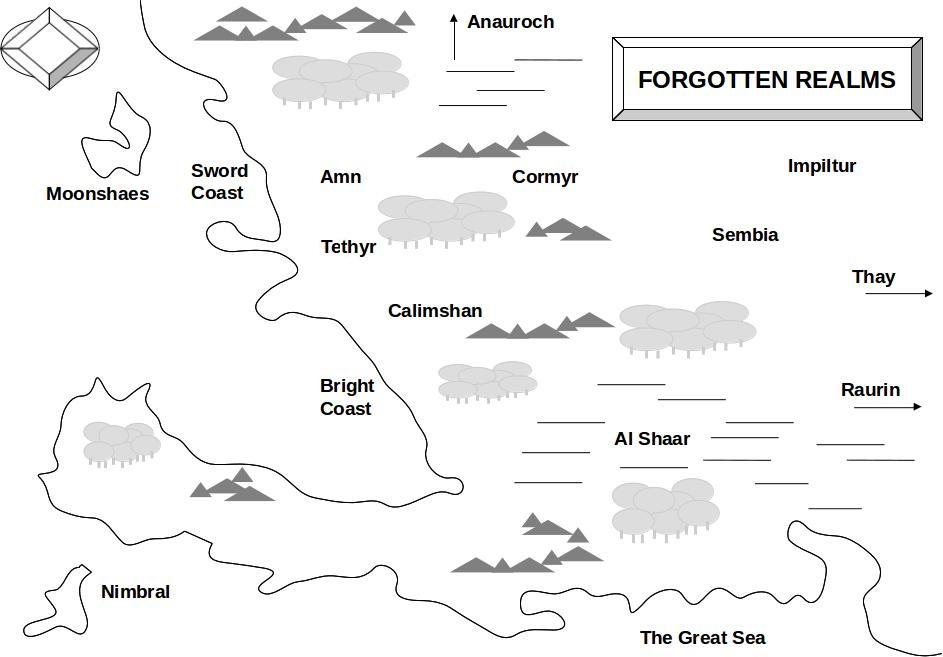 Map of The Forgotten Realms in Dungeons & Dragons games